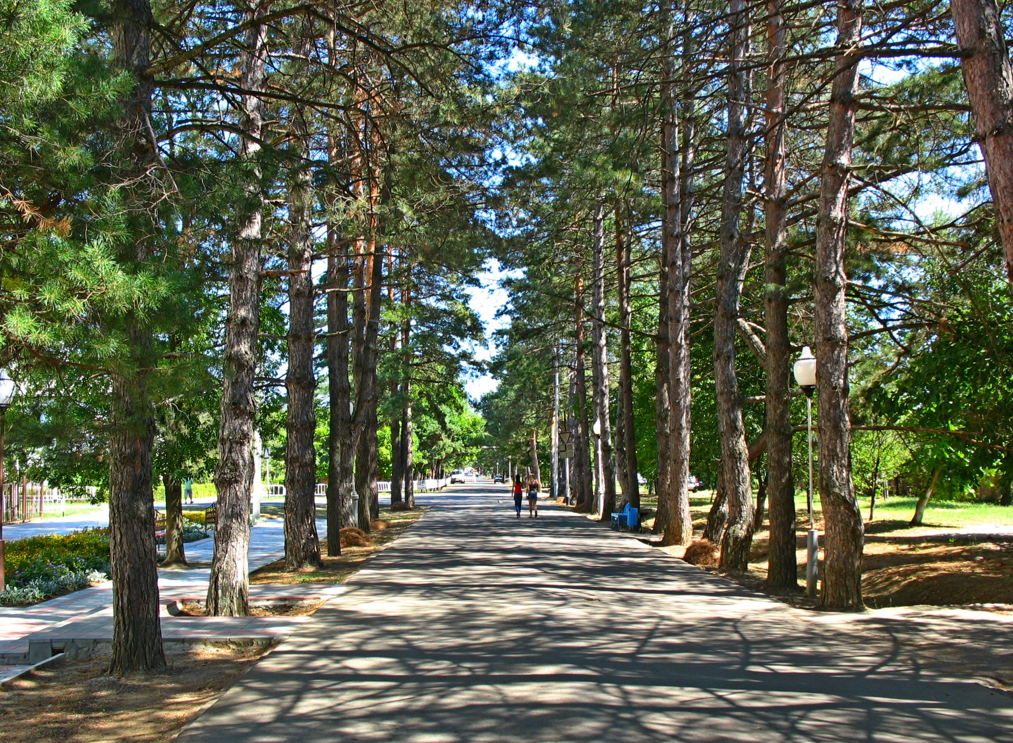 Main street of the town - Lenina (ex-Krasnaya)